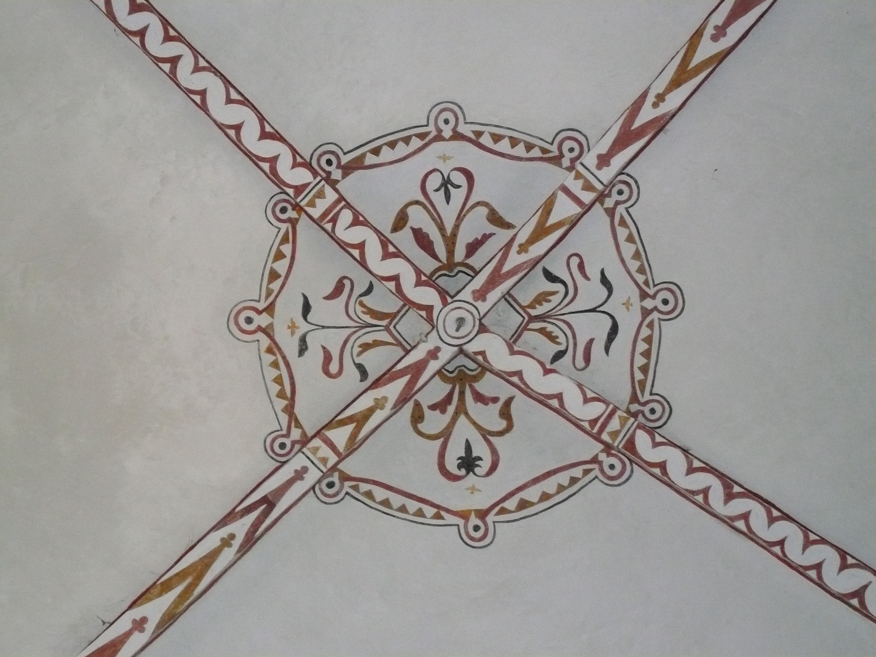 DDrawings in the cross vault of the church of St. Jürgen in Lower Saxony